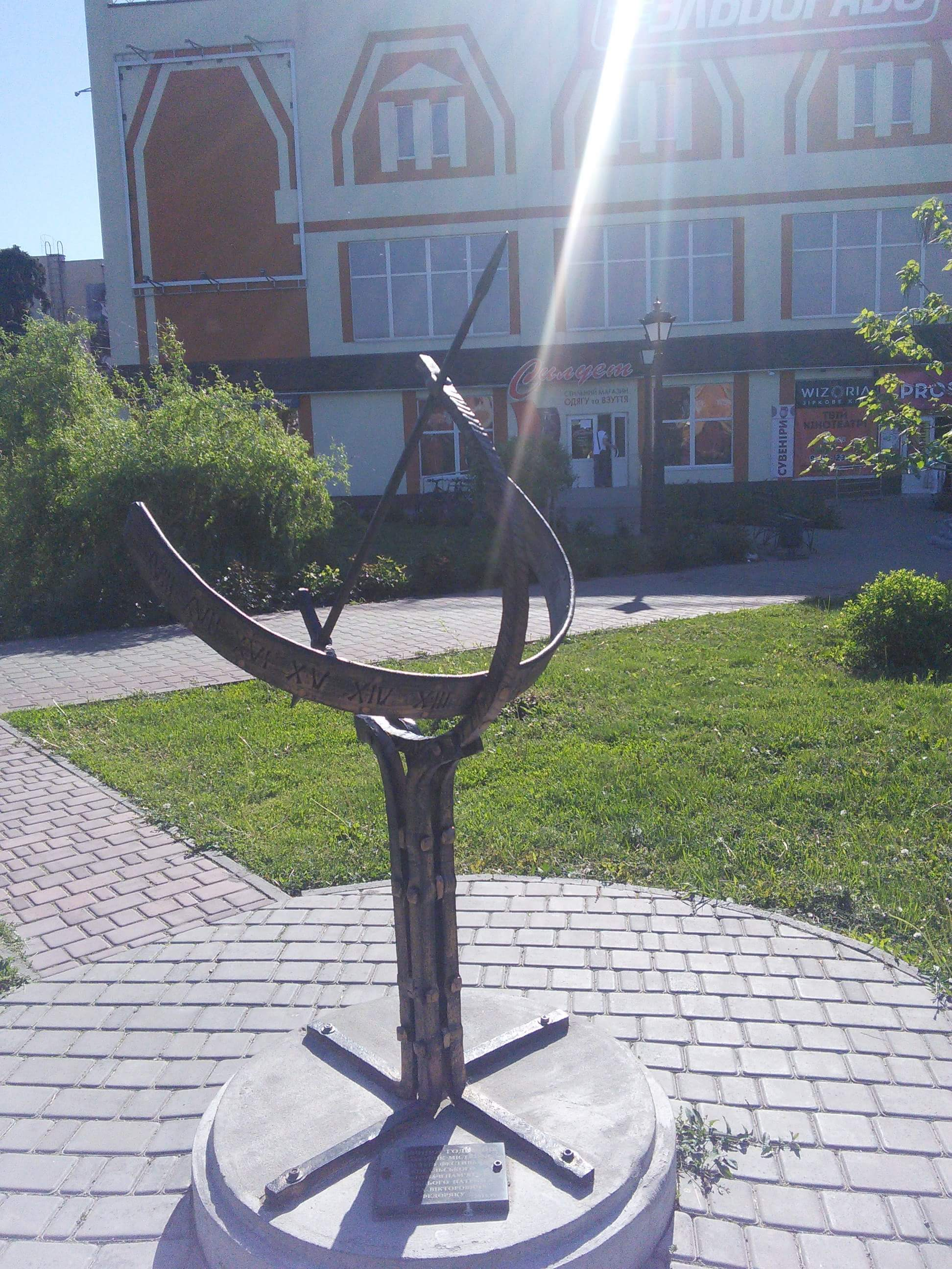 Sundial in Myrhorod